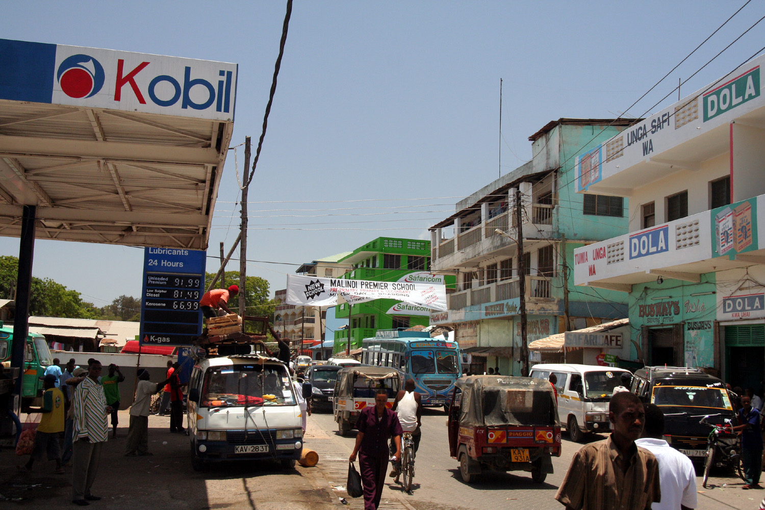 Malindi market in the centre of the town